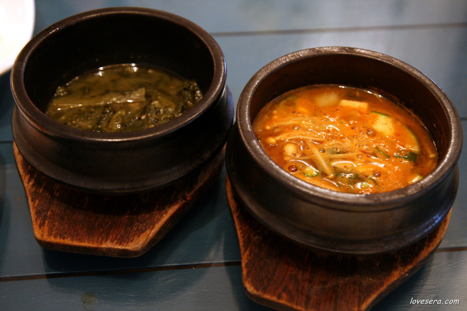 Korean cuisine at a restaurant, Paju city, Gyeonggi province, South Korea